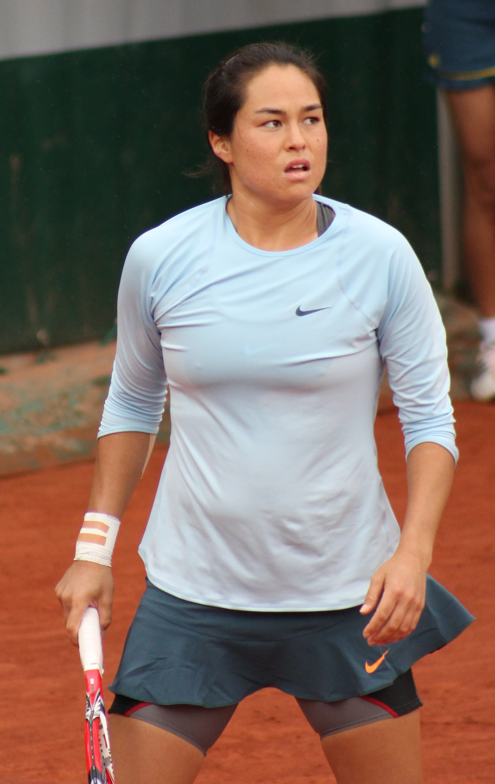 Hampton RG13 (5)